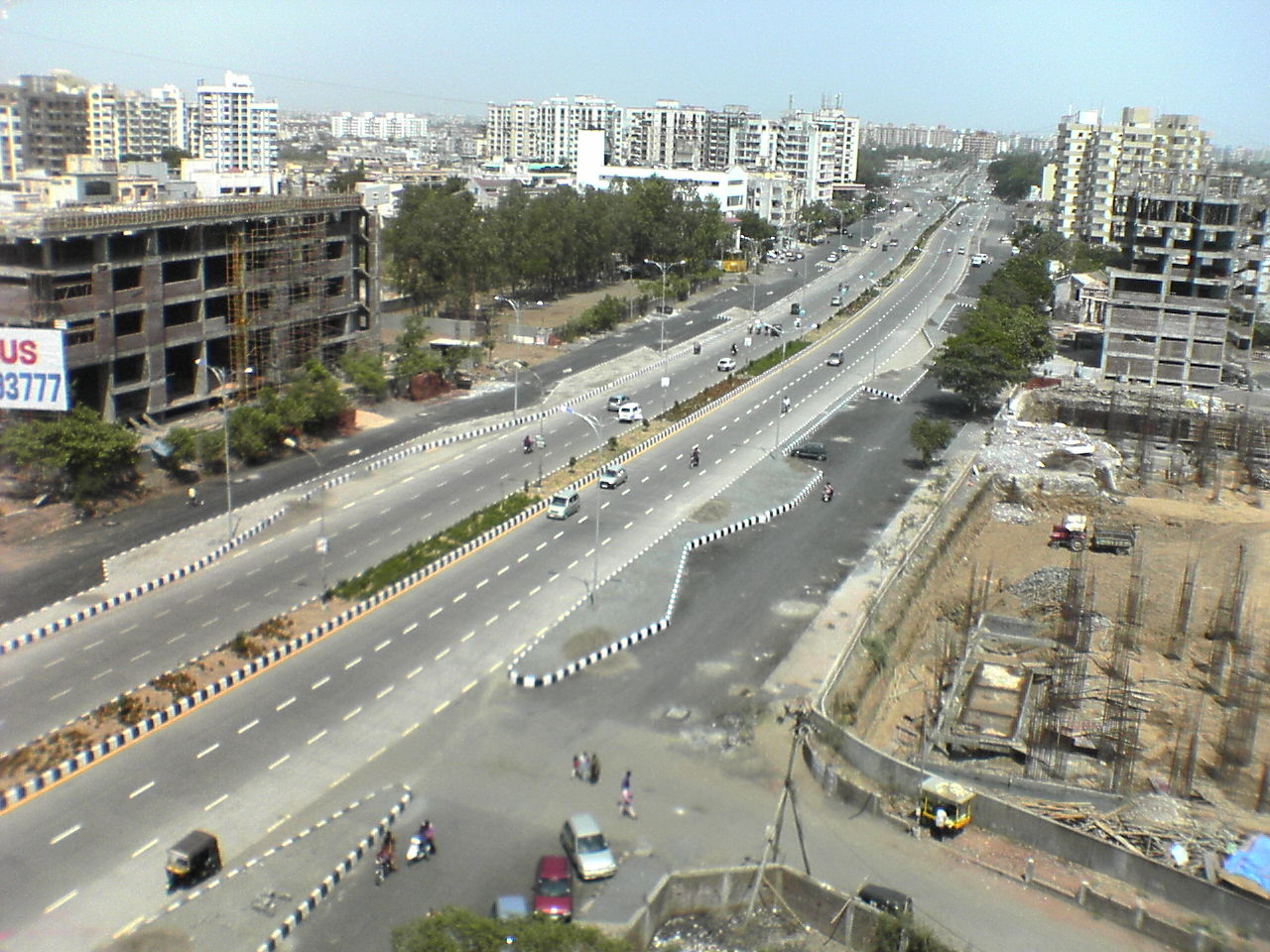 Gaurav Path in Piplod, Surat